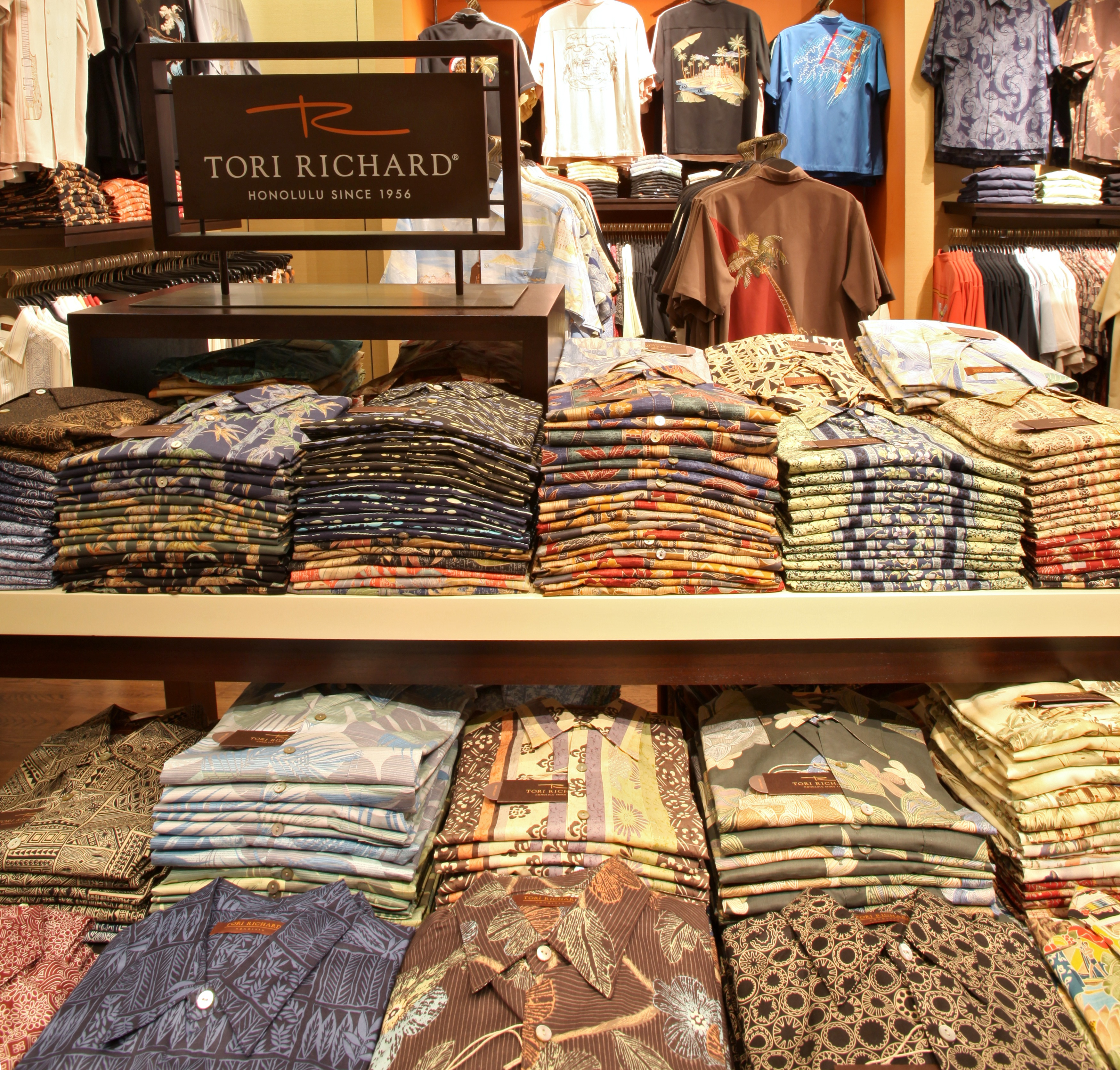 Tori Richard aloha shirts in the Royal Hawaiian Hotel, Waikiki